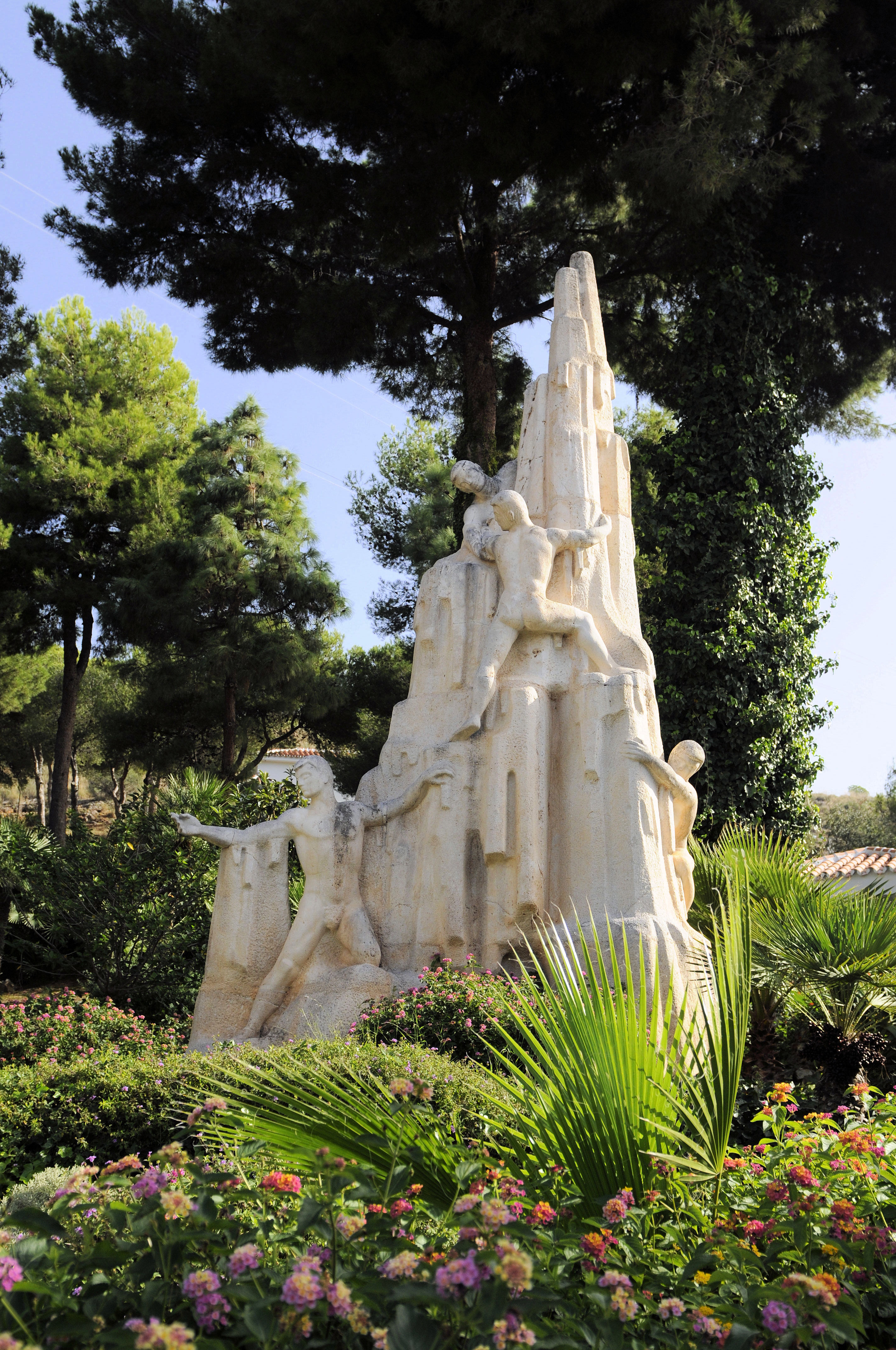 Monument to the discovery of the Nerja cave.